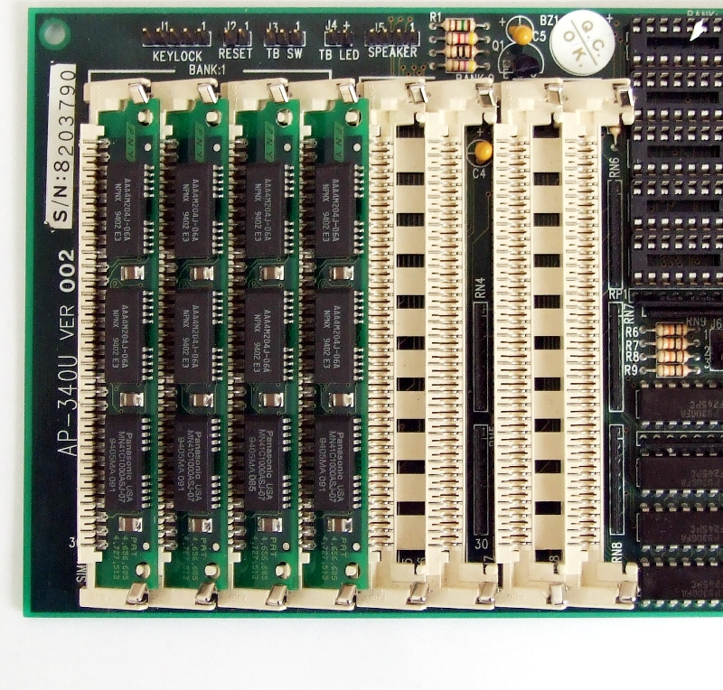 SIMM slots with RAM.